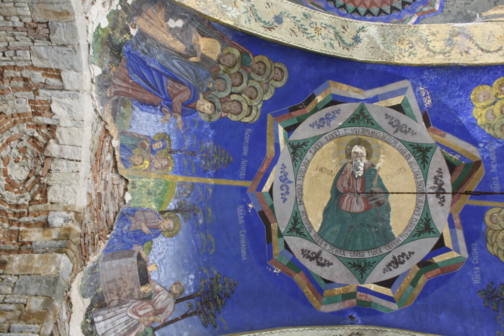 Church in the Skorcite village